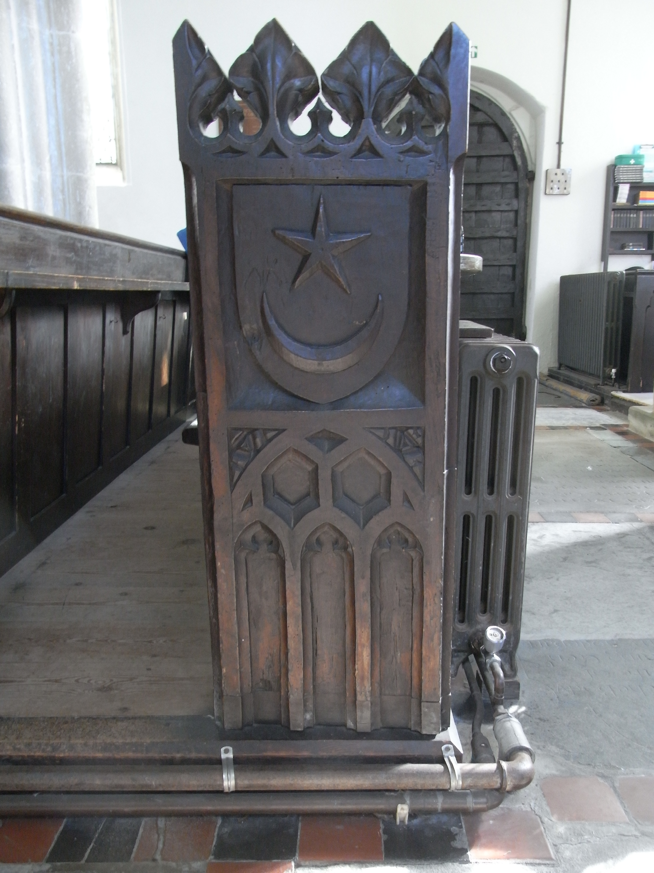 Heraldic bench-end c.1510, Weare Giffard Church, Devon, showing arms of Denzell family: Sable, a crescent in base and a mullet in chief argent